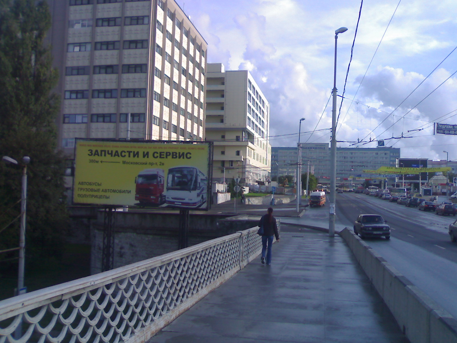 Traffic jam, Lenin prospect, Kaliningrad, 2006.